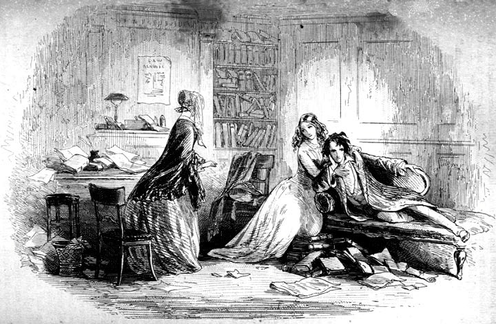 Friendly Behaviour of Mr. Bucket by "Phiz" (Hablot Knight Browne) for Bleak House, p. 493 (ch. 51, "Enlightened"). 4 7/8 x 5 3/4 inches.